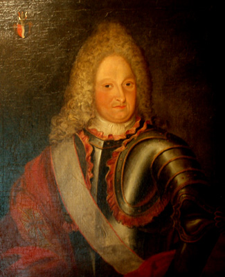 Michael (Wilhelm) von Sundt (1679-1753), Dano-Norwegian general. Copy of a portrait from 1832/33 by Captain Munch, which was also a copy of the lost 18th-century original.